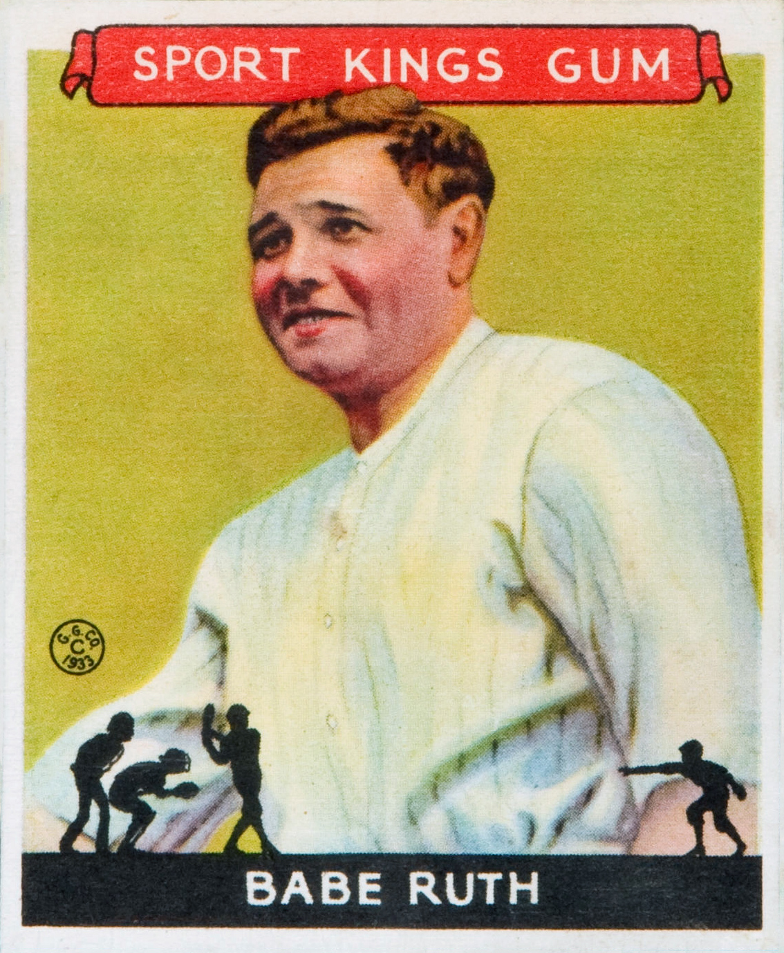 1933 Sport Kings Babe Ruth #2